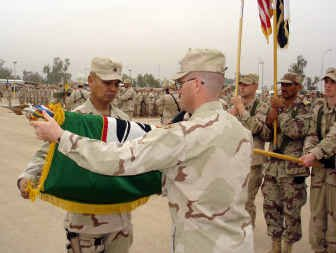 Brig. Gen. Oscar Hilman, left, and Command Sgt. Major Robert Barr, case the flag of the 81st Brigade Combat Team during the Transfer of Authority ceremony Thursday.